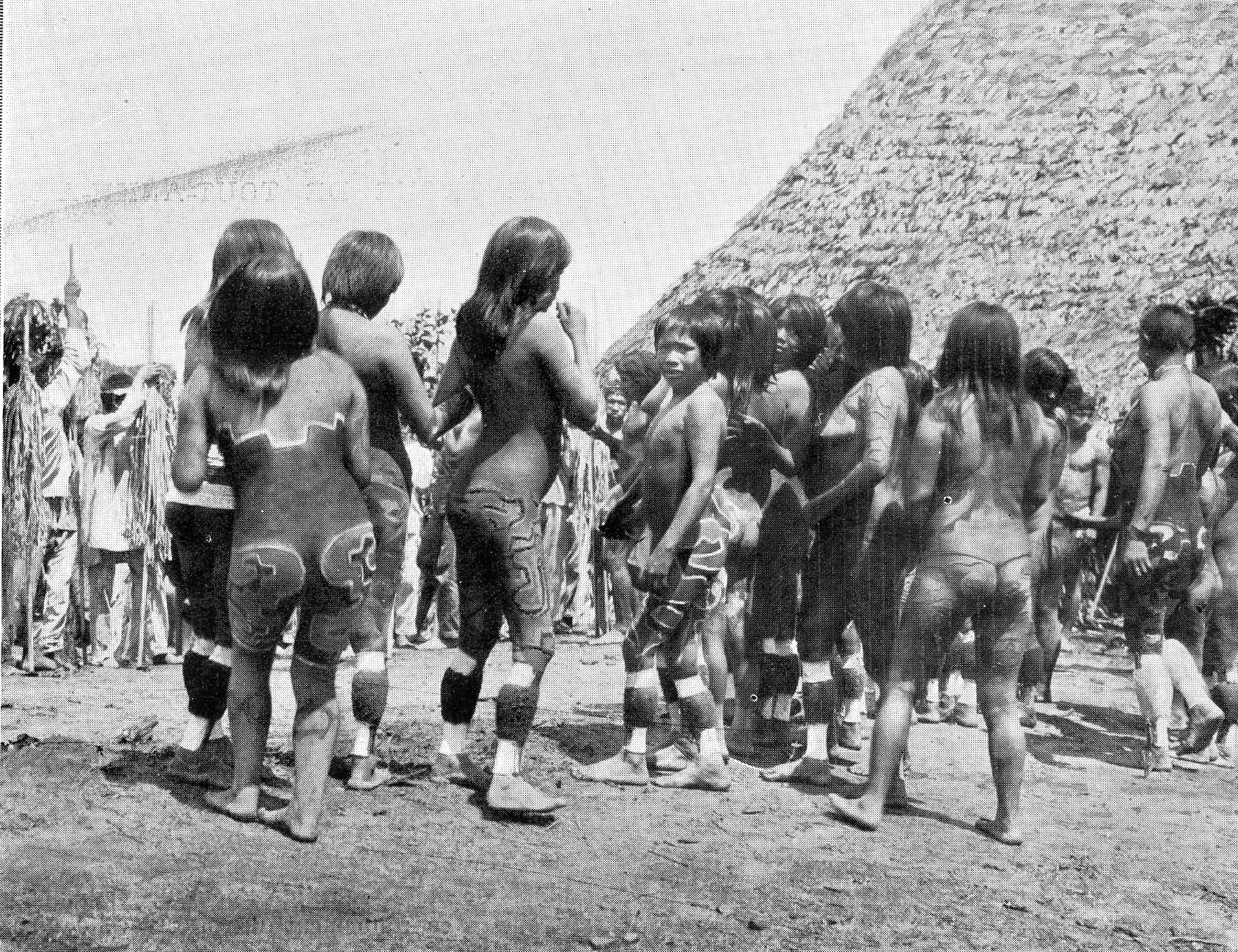 Ocaina women ready for dancing